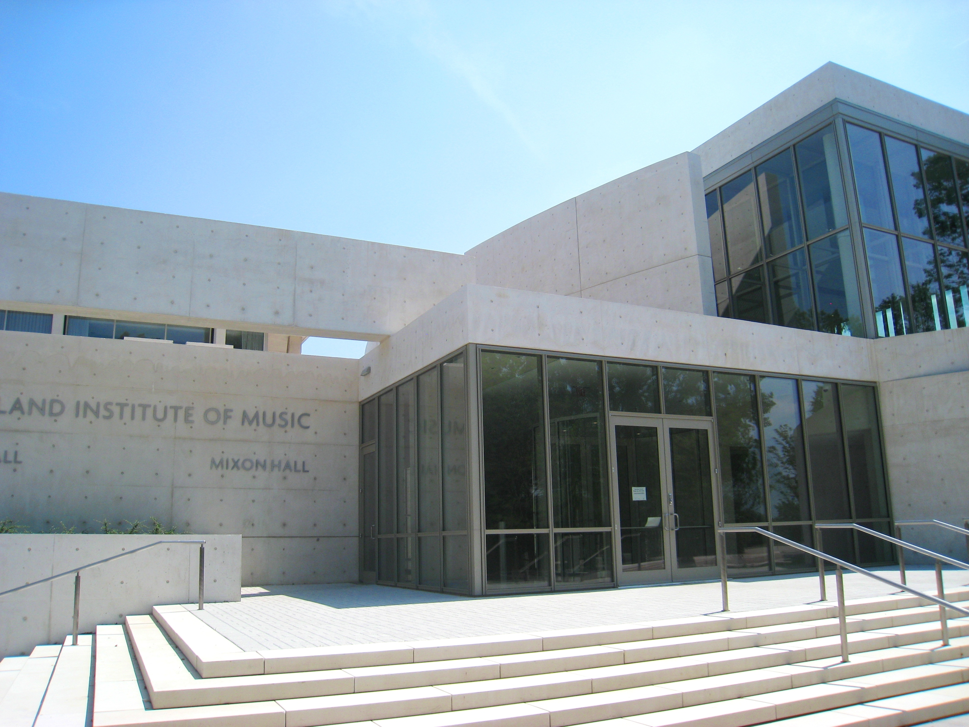 Entry - Cleveland Institute of Music, Cleveland, Ohio, USA.